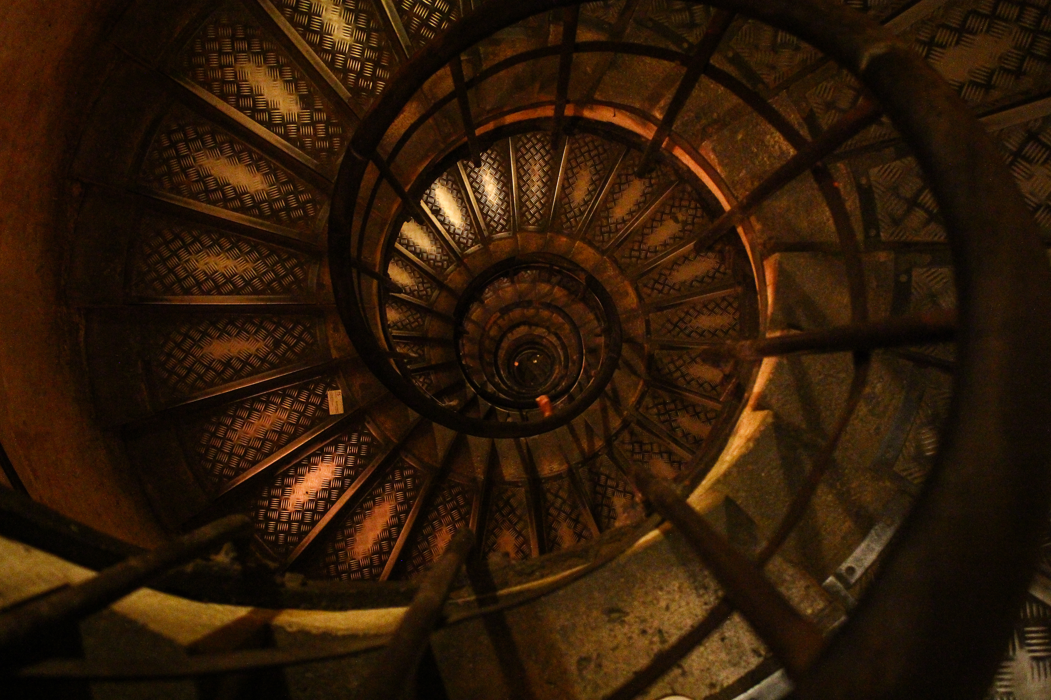 L'Arc de Triomphe de l'Etoile, Paris, France